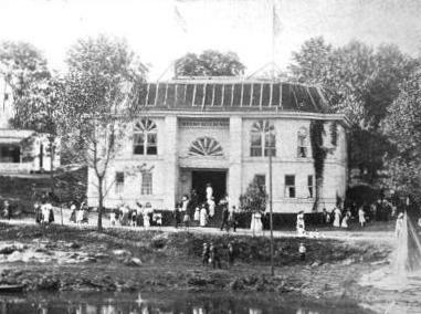 The Negro Building at the National Conservation Exposition at Chilhowee Park in Knoxville, Tennessee, USA. This building was designed by John Henry Michael, head of the Mechanical Department at Knoxville College, and constructed with the help of Knoxville College students.